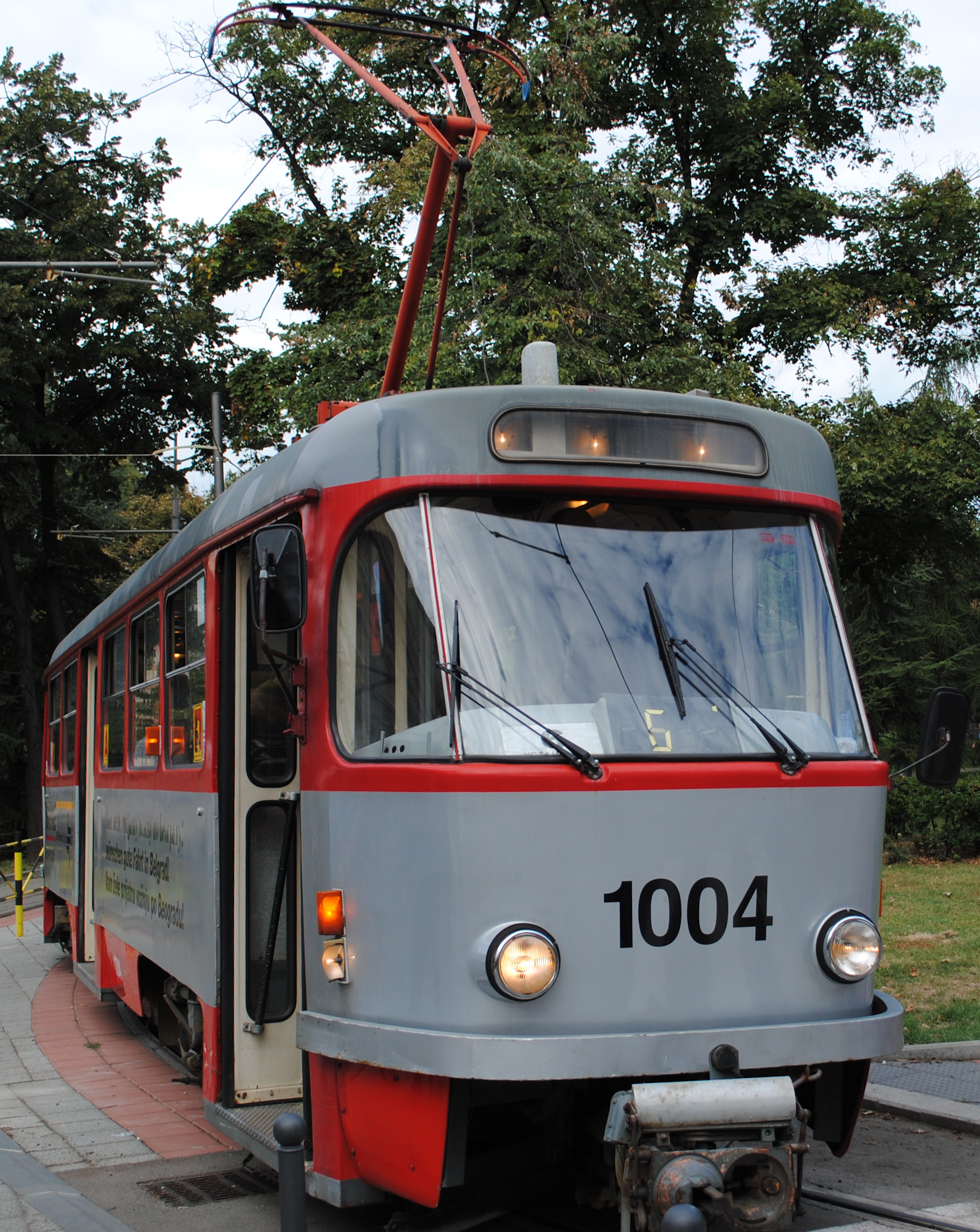 Tatra T4D tram 1004 in Belgrade, former 1110 II in Halle (Saale)